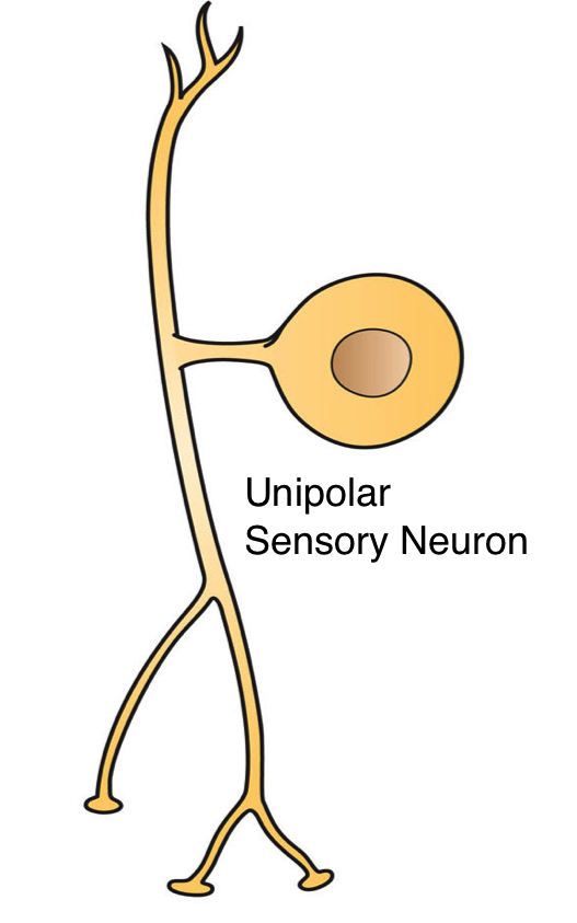 This image shows the structure of a unipolar neuron